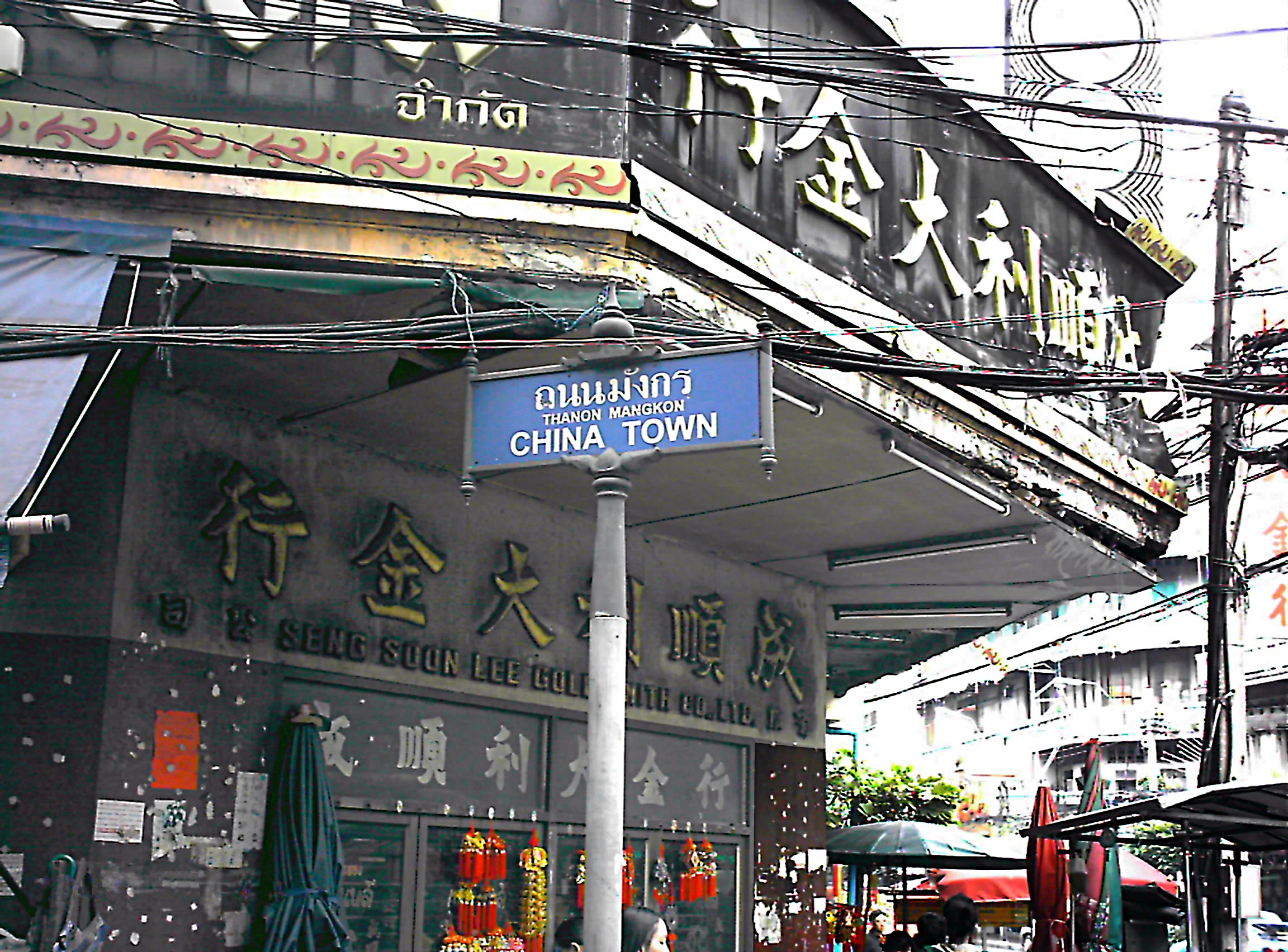 Start of Thanon Mangkon, Bangkok, Thailand 中文（香港）: 泰國 曼谷 演說街 街頭